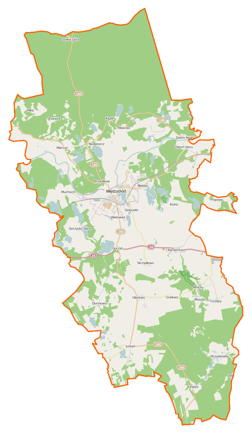 Map of Gmina Międzychód, Poland This map of Międzychód (gmina) was created from OpenStreetMap project data, collected by the community. This map may be incomplete, and may contain errors. Don't rely solely on it for navigation. Border coordinates52.730315.7672←↕→16.042052.4428